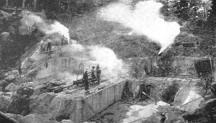 Mead's Quarry, which produced Tennessee marble, in Knoxville, Tennessee, USA, photographed in 1890. This quarry is now part of the Ijams Nature Center.